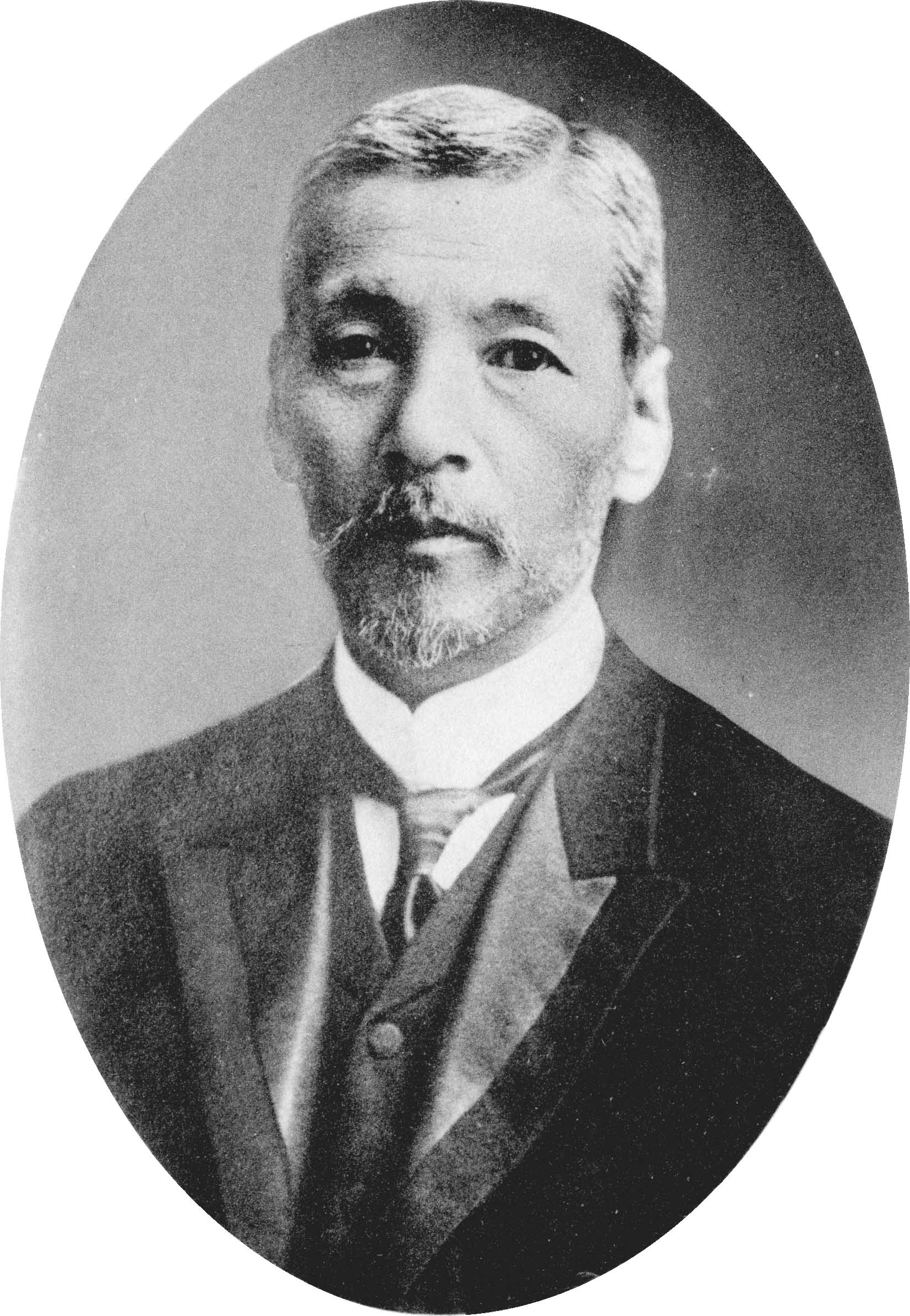 Sakurai Jōji, Acting President of the Imperial University of Tokyo.